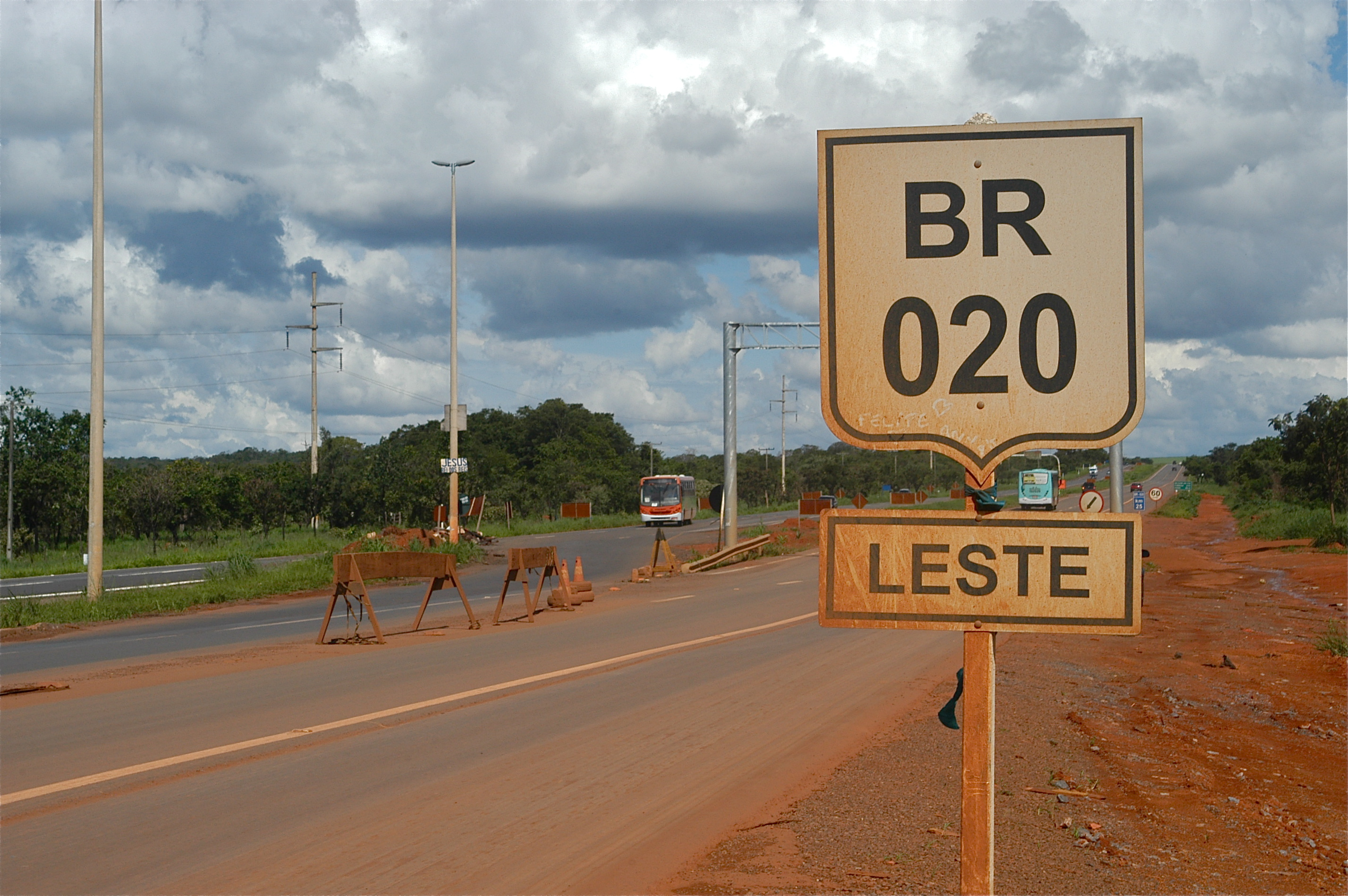 BR 020, a brazilian road in Planaltina, Distrito Federal.